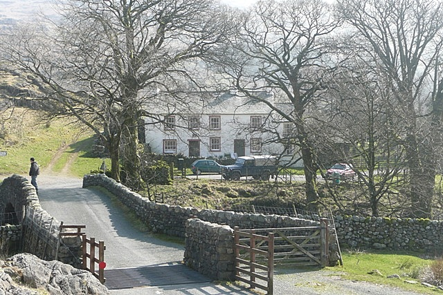 Cockley Beck Bridge This is the bridge over the River Duddon in the hamlet of Cockley Beck. The farm beyond is one of just two buildings here. The lovely location provides a breather for drivers between Hard Knott Pass and Wrynose Pass.